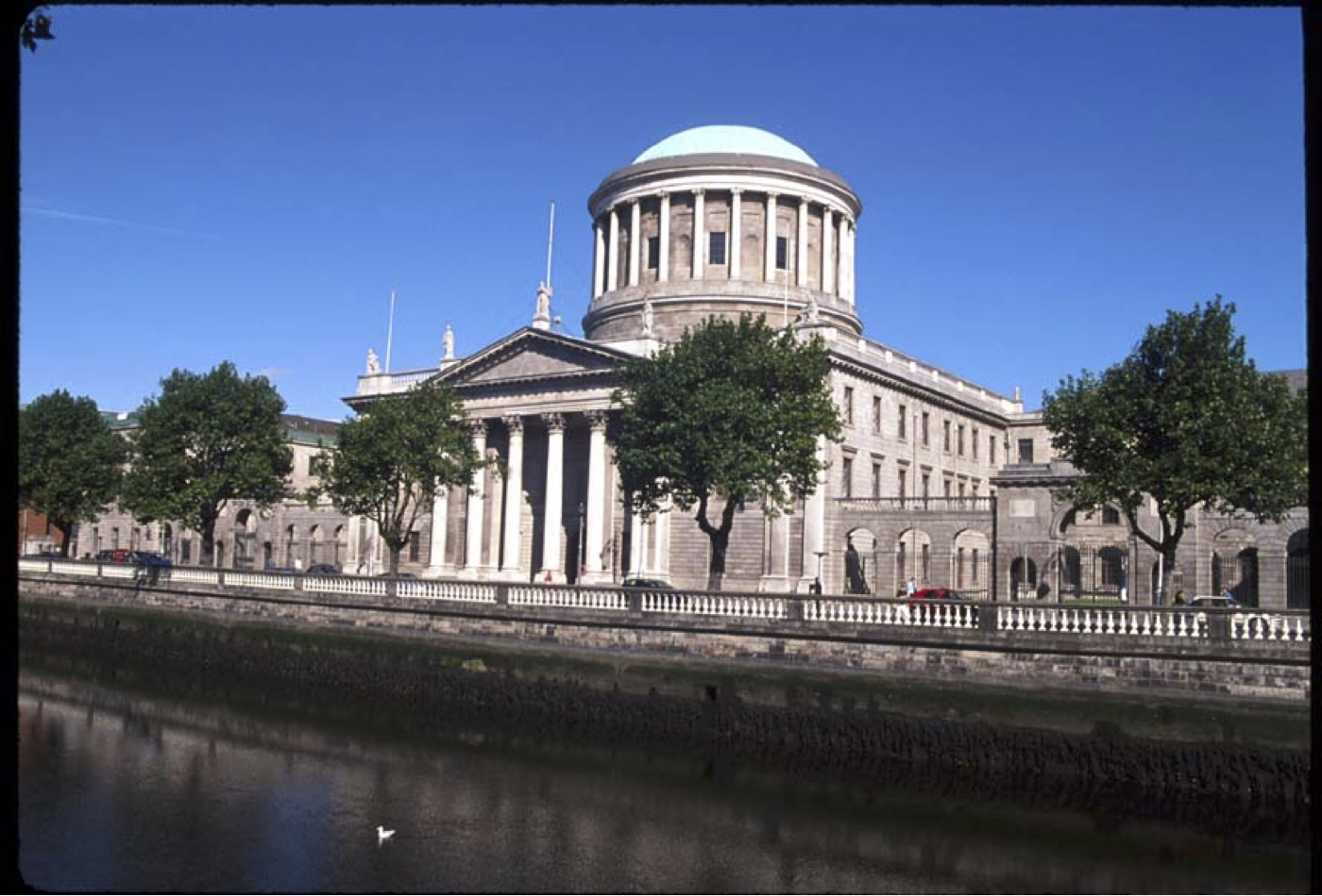 Four Courts - Dublin, Ireland.